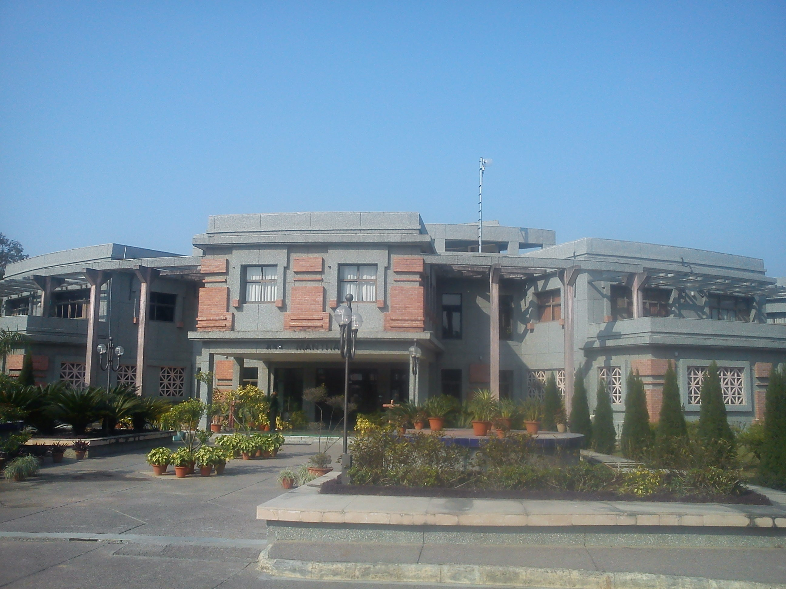 Management Development Center at IIM Lucknow